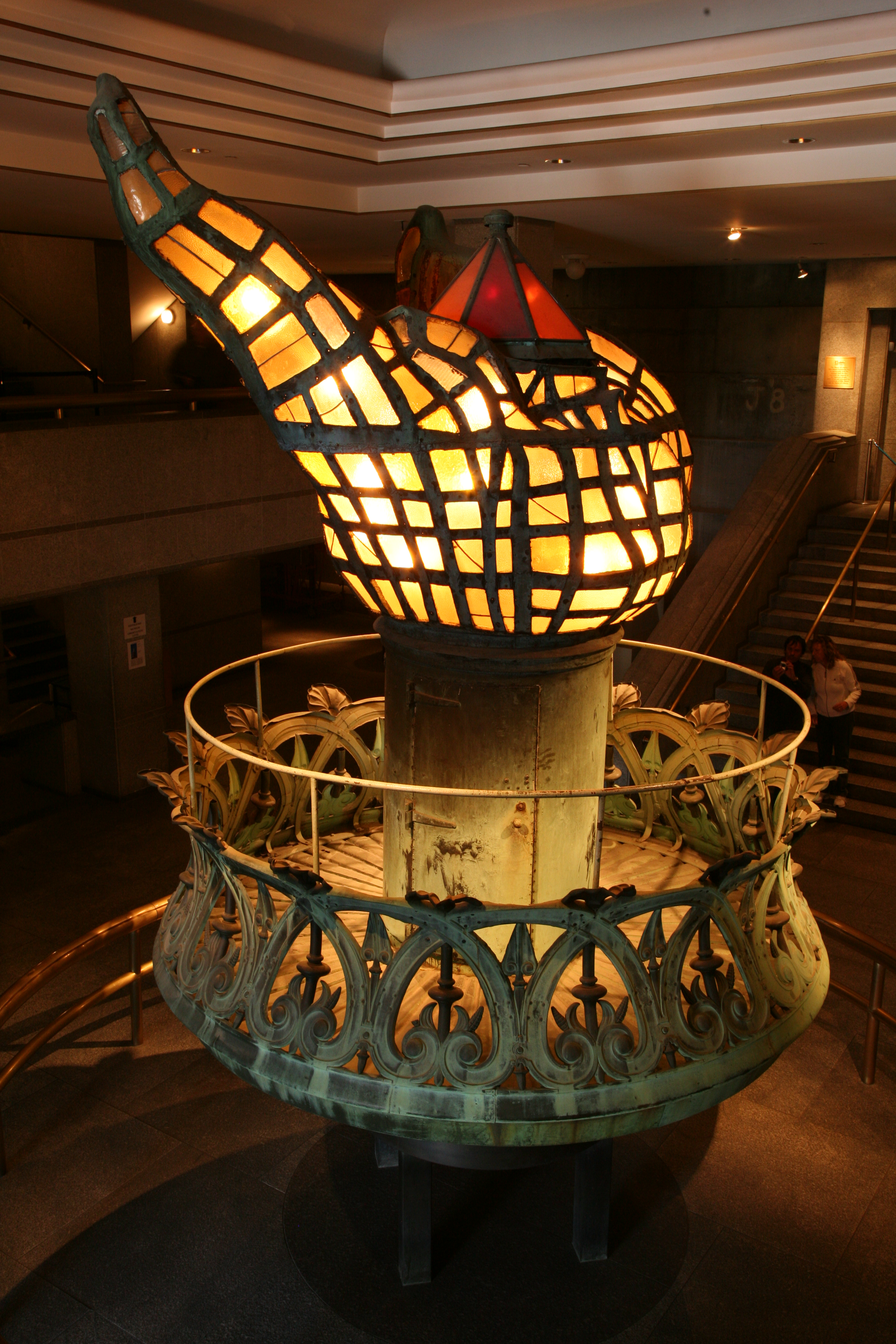 Old torch of the Statue of Liberty.